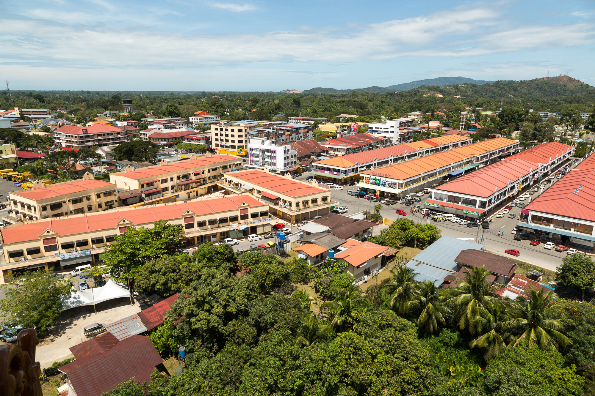 Tuaran, Sabah: Panoramic view from Ling San Pagoda)